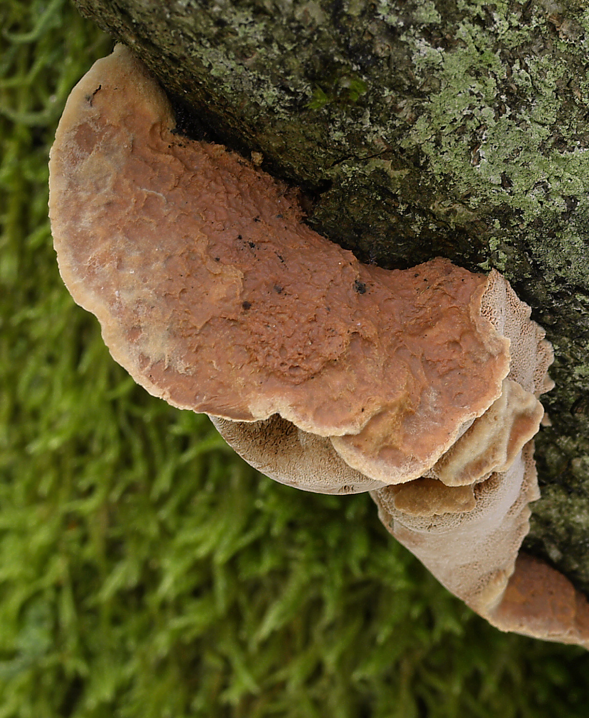 Cinnamon Bracket (Hapalopilus nidulans) on a thin, dead, but standig stem of an oak